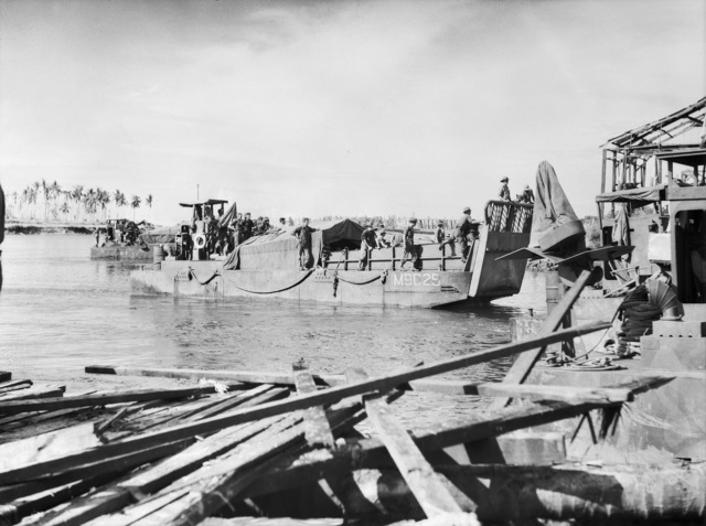 Australian troops from the 8th Infantry Brigade land at Madang aboard US landing craft